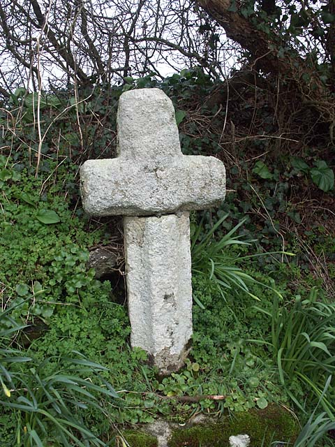 Wayside Cross near St Michael Penkevil